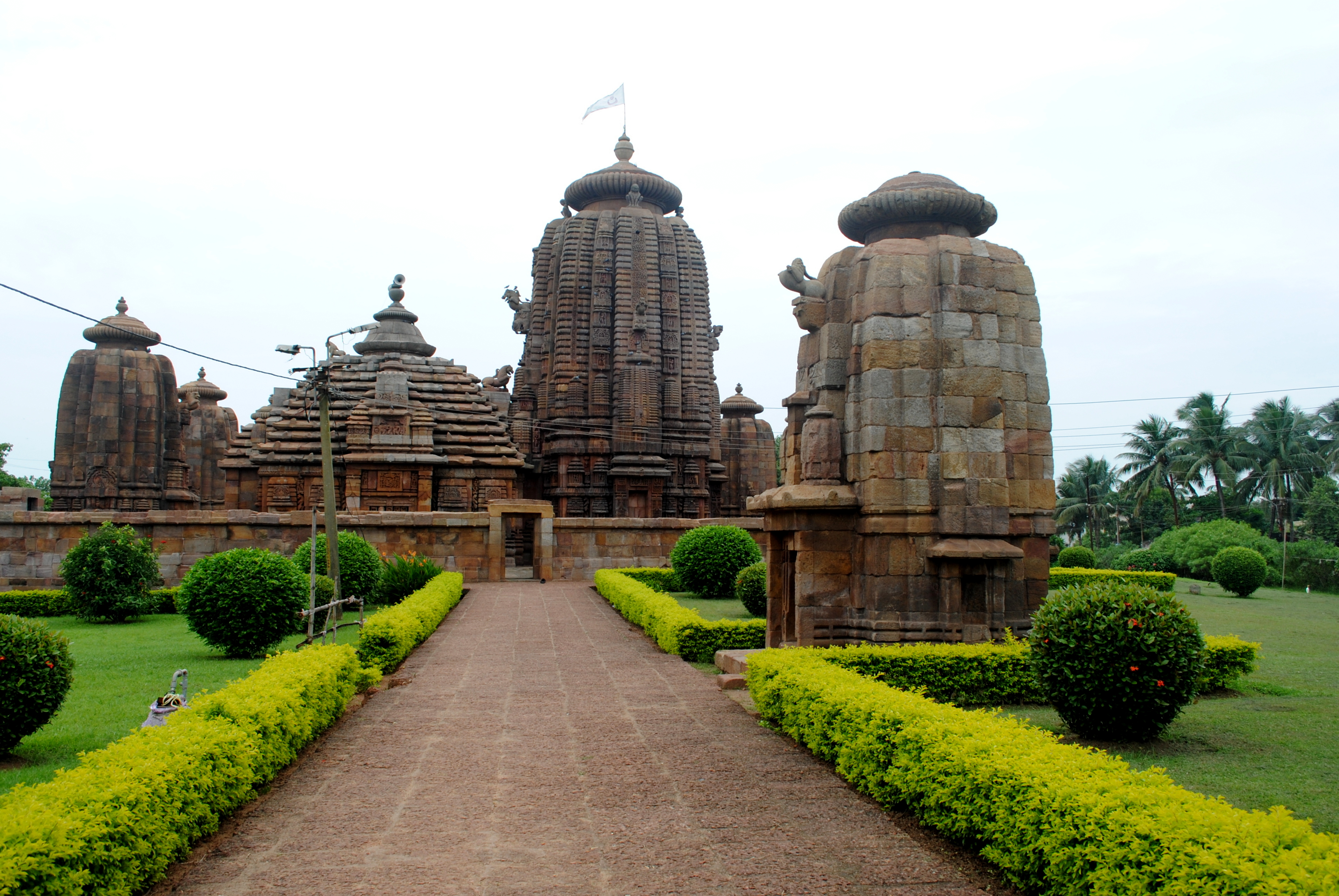 Brahmeswara Temple is a hindu temple dedicated to Lord Siva located in Bhubaneswar, Orissa. It was built at the end of the 9th century AD, and is richly carved.